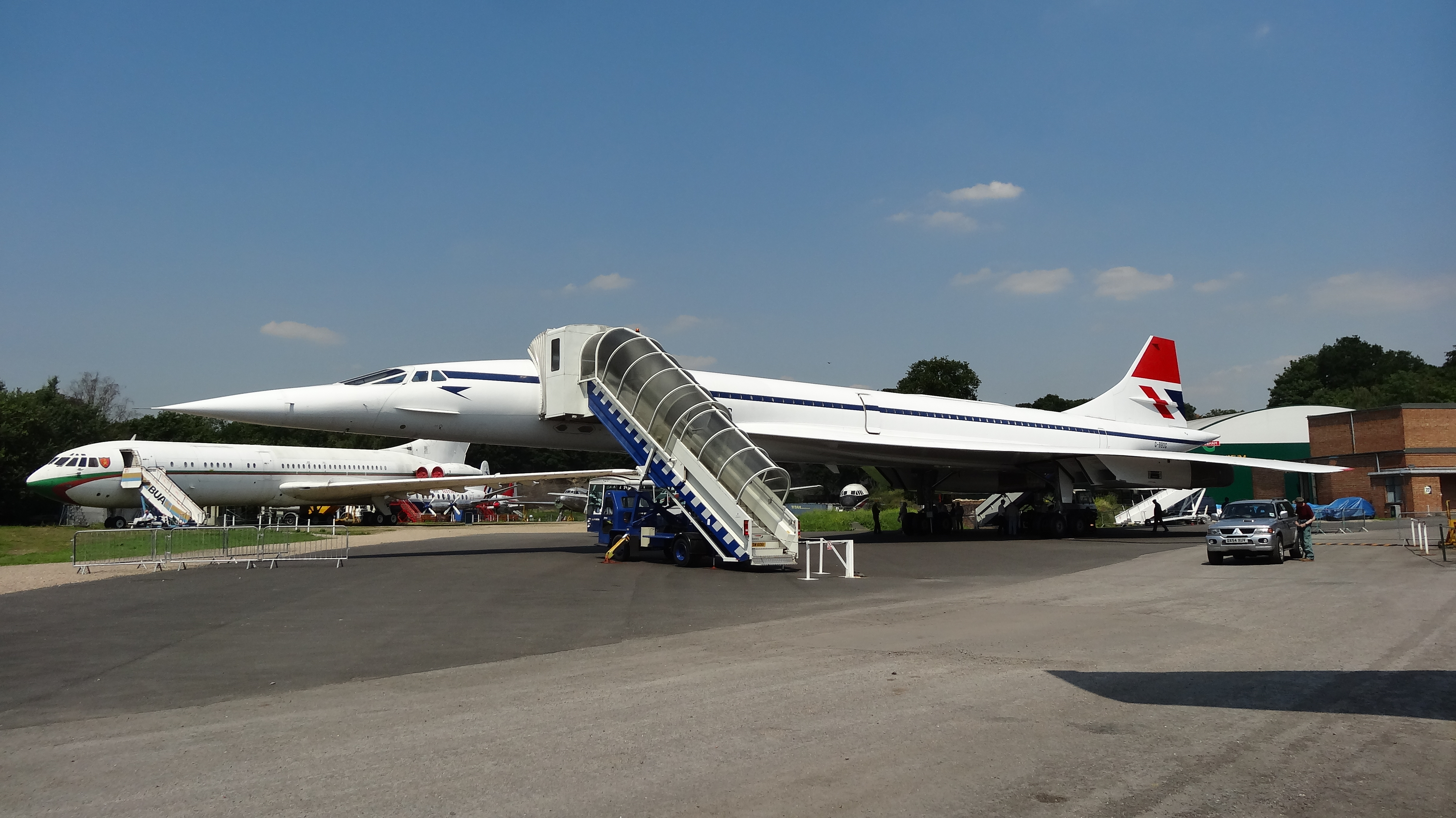 A photo of the British Airways Concorde at Brooklands Museum, photo taken by Kane L S Smith on the 25th of July 2012.